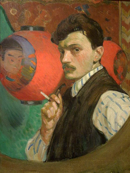 Włodzimierz Błocki - Self-Portrait with a Pipe (1915)